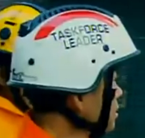 Pacific Helmet R7HV Hong Kong Fire Service Department Urban Search And Rescue Team Task Force Leader 中文（香港）: Pacific 頭盔 R7HV 香港消防處 坍塌搜救專隊 指揮官